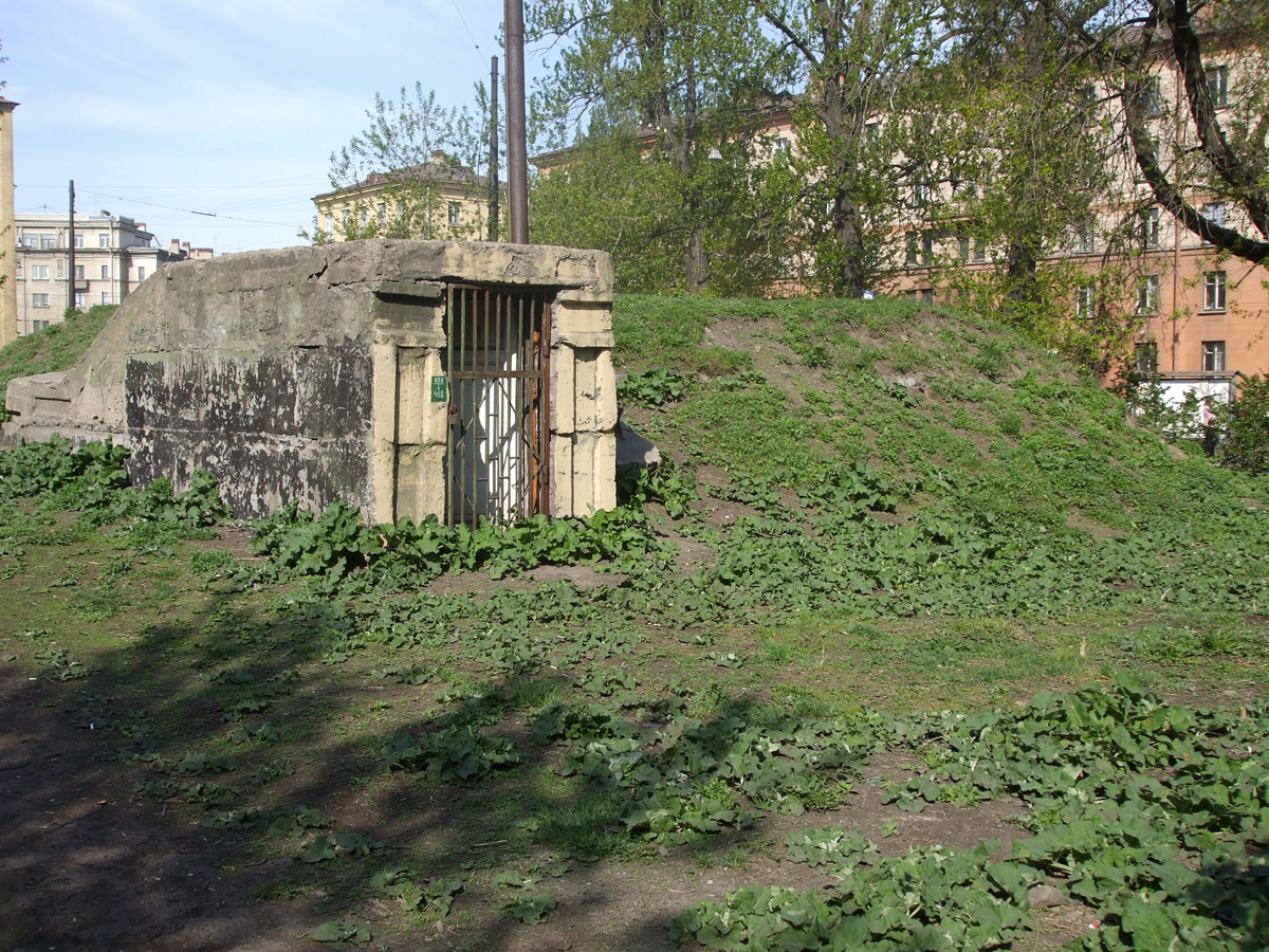 Saint-Petersburg, bunker